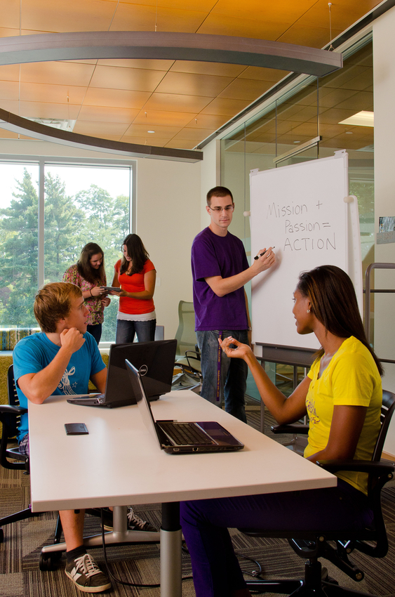 Students work in a study area in Peckham Hall at Nazareth College in Rochester, NY